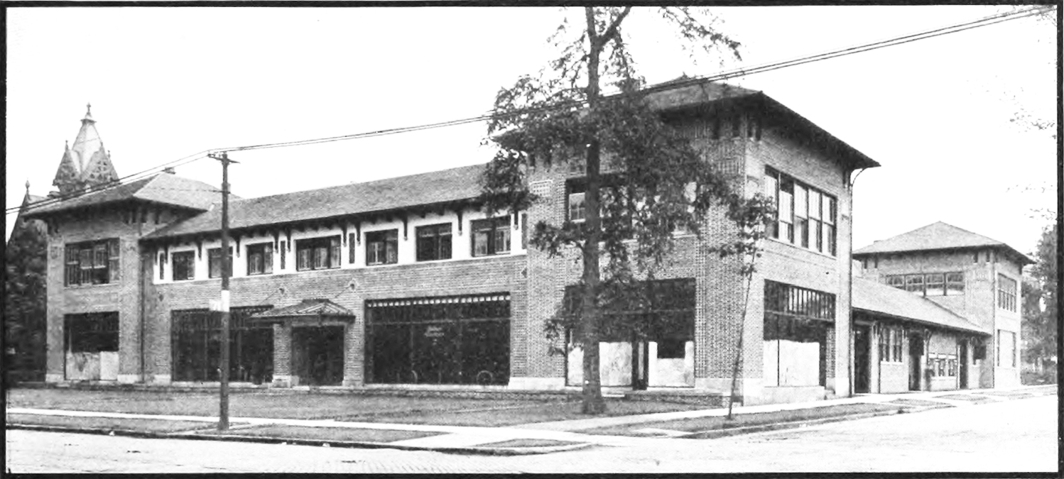 The Baker Motor Vehicle Company building at 7100 Euclid Avenue in Cleveland, Ohio, in the United States.